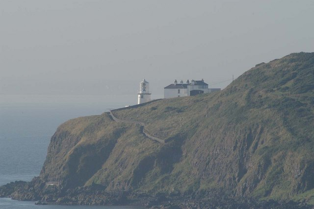 Blackhead Lighthouse Blackhead Lighthouse, viewed from the Gobbins Road, Islandmagee